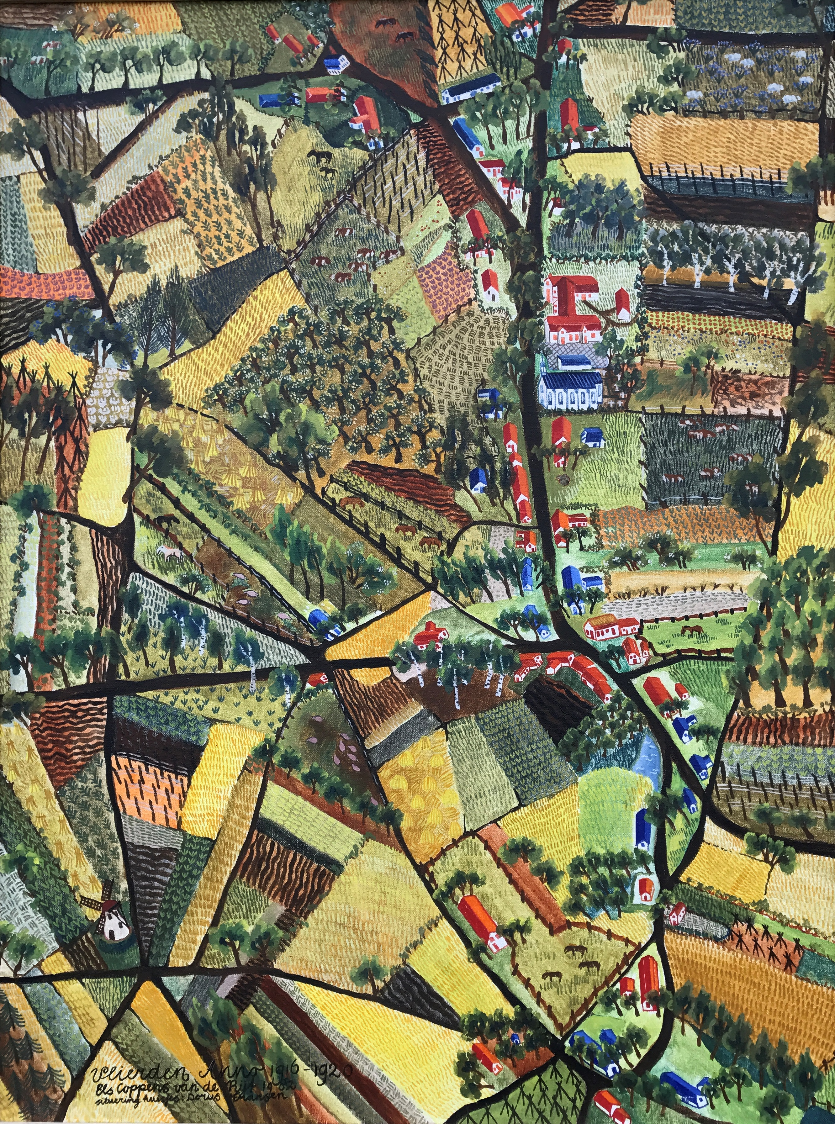 Painting commissioned and owned by the uploader Pieter Koolen (Pieter K) by Els Coppens-van de Rijt of the centre of Vlierden, inspired by a schematic sketsch by Dorus Fransen.